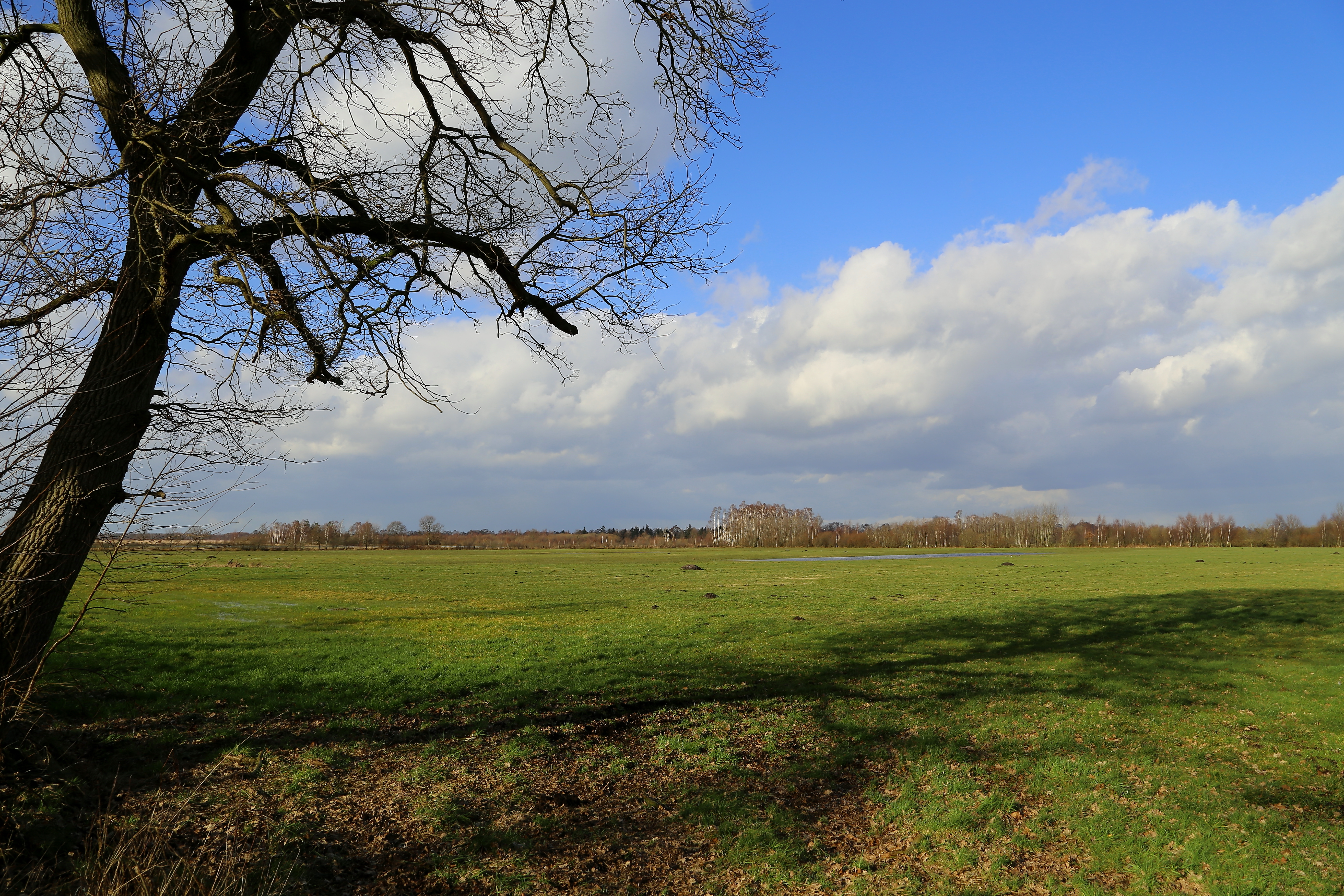 The nature reserve (Naturschutzgebiet) „Mettinger Moor“ in Mettingen-Bruch, Kreis Steinfurt, North Rhine-Westphalia, Germany.